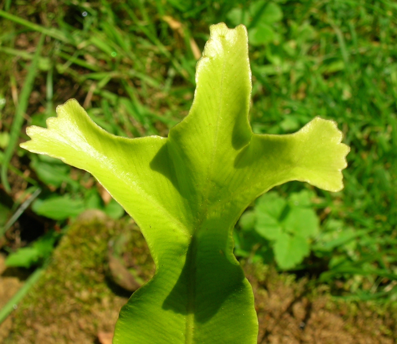 Hartstongue fern sport with abnormal triplicated frond tip, Phylitis scolopendrium. Chapeltoun, Scotland.